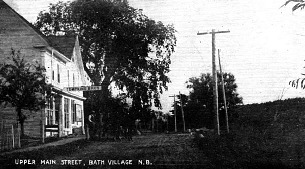 Post card showing the upper Main Street in Bath, New Brunswick in 1920.